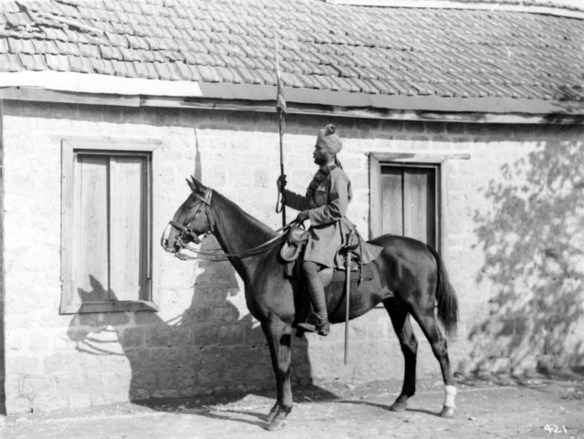 An unidentified Indian Rajput mounted on the English gelding "Mortshire".